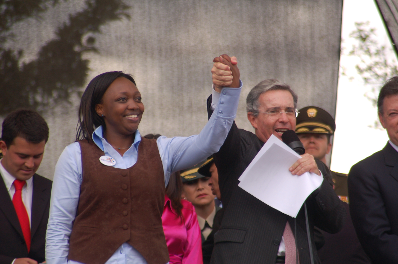 Paula Marcela Moreno Zapata